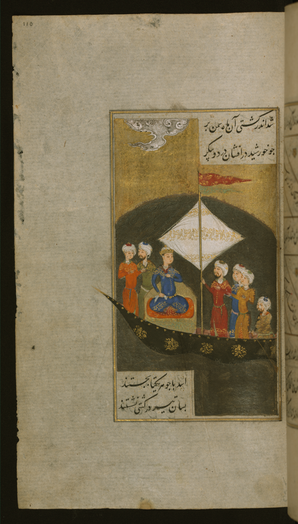 This folio from Walters manuscript W.627 contains an illustration, on which, driven by deep affection, Mihr sails to India in search of Mushtari.